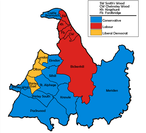 Ward map of Solihull Council with political colouring for the 2003 election.